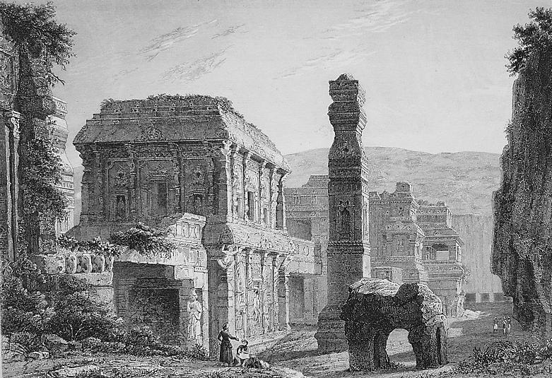 "Kailasa Temple at Ellora, India," a copperplate engraving, 1850 Source: ebay, June 2006